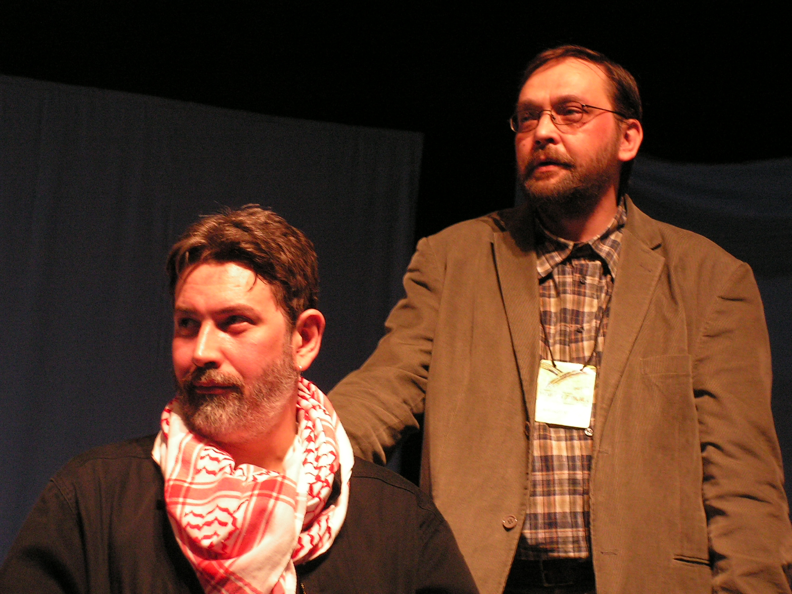 Discussion of the play "Balloon of the Montgolfier brothers" at the theater festival "New drama" in Togliatti". Directed by Mikhail Kabanov and Igor Kornienko, "Dom Aktera imeni A.A. Yablochkinoi" with the assistance Of the Committee for culture of Moscow and the project "Open stage", Moscow. From left to right: playwrights Vadim Levanov and Mikhail Ugarov. Hall branch of the theater "Koleso" (small stage, now TYUZ "Dilizhance"), Togliatti, Russia. March 31, 2007.